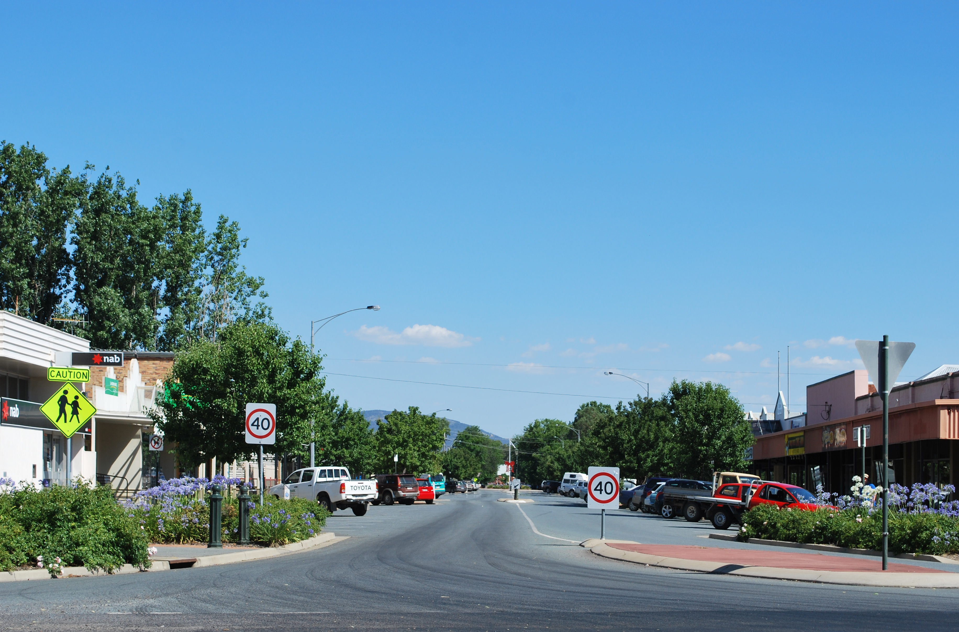 Binney St, the main shopping strip of Euroa, Victoria